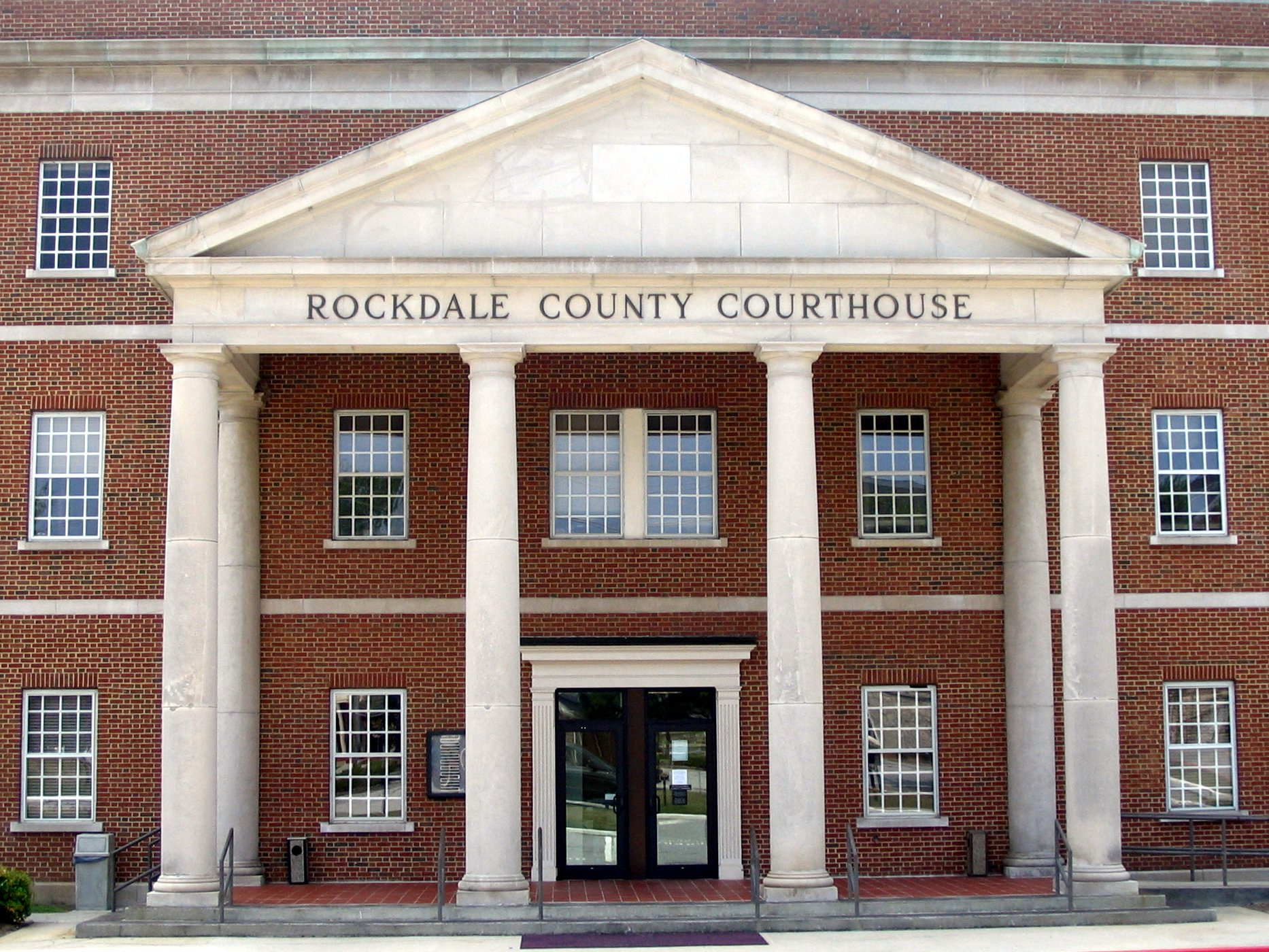 Rockdale County Courthouse in Conyers, Georgia. Photo taken by Steve Karg